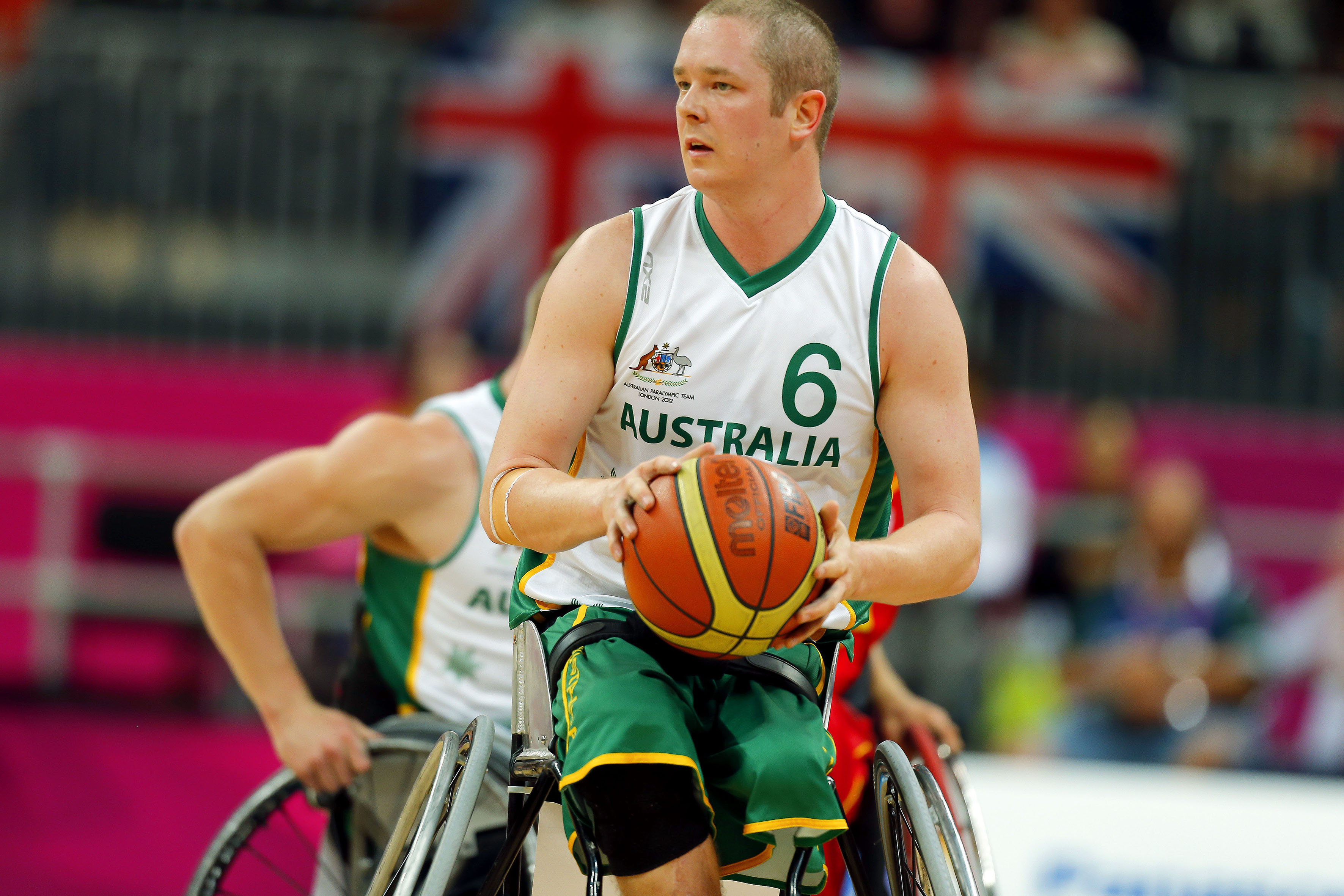 Photograph of Australian Paralympic team member Brett Stibners at the 2012 Summer Paralympic Games in London